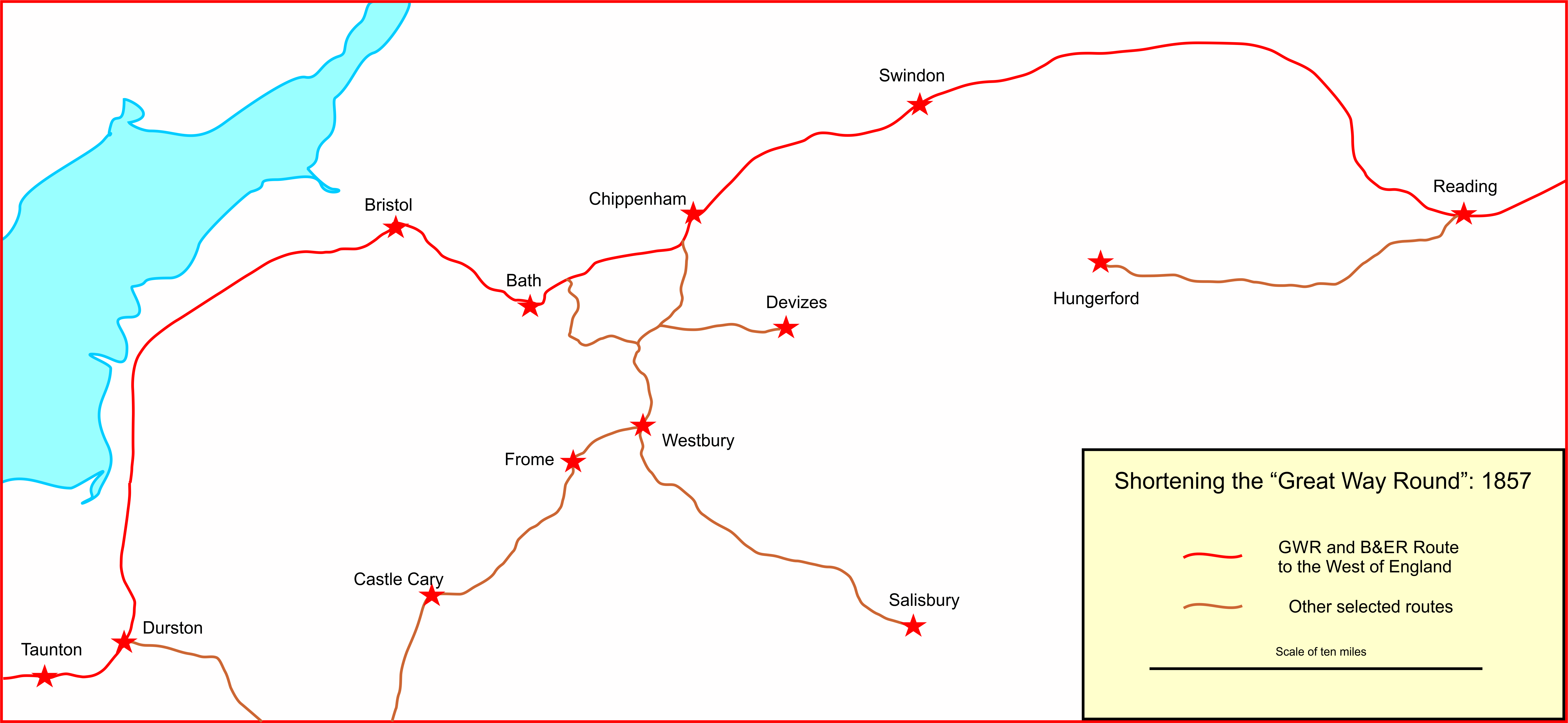 GWR railway route from Reading to Taunton in 1857